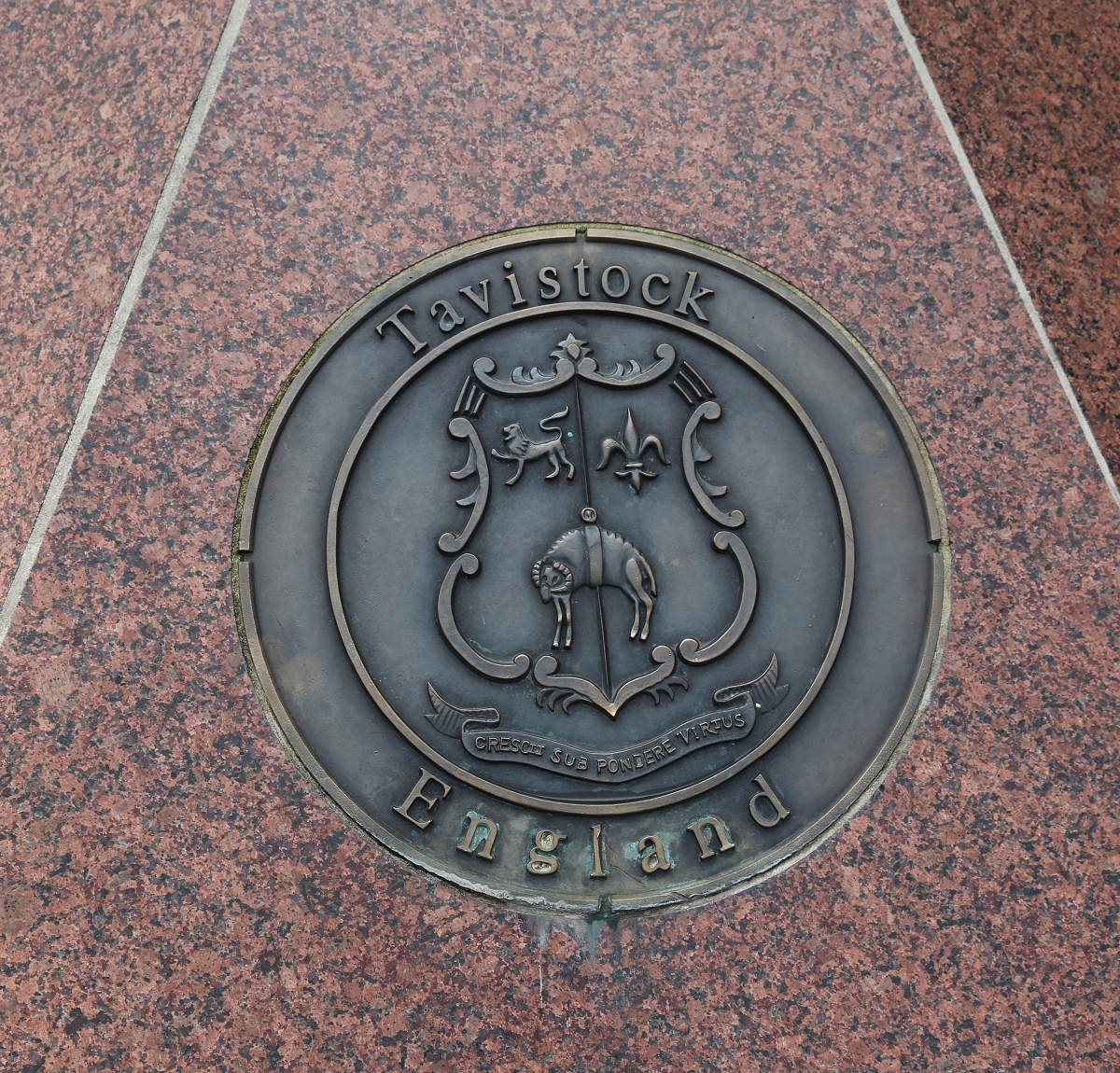 Tavistock is one of the twinned towns / sister cities of Celle in the North of Germany. Placed at a work of art with the further seals of her twinned towns. Inserted in polished granite of a multilateral similar to pyramid polygon (see survey photography)